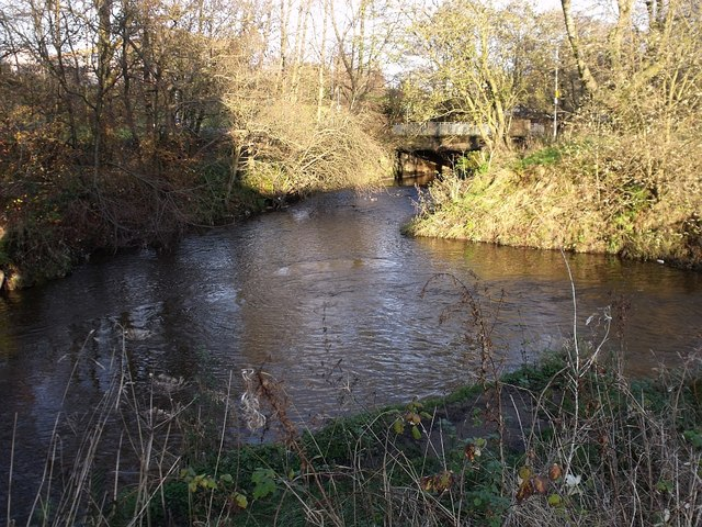 Meeting of the Waters The confluence of the Luggie Water and the Bothlin Burn in Kirkintilloch. In the spate conditions seen here each stream can easily be classified as rivers.